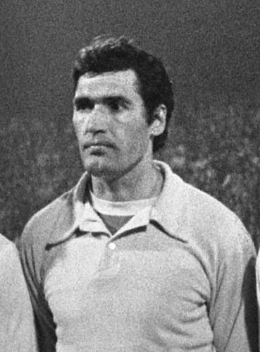 Yevhen Rudakov in 1975.